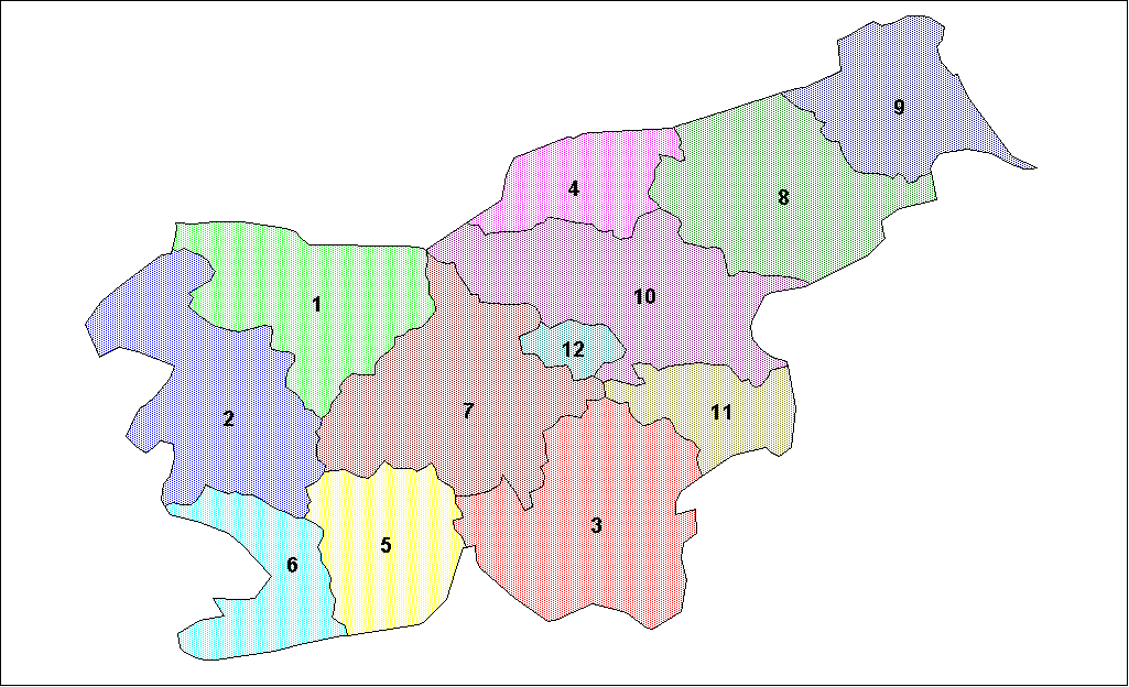 Map of the regions of Slovenia (statistical purposes only).